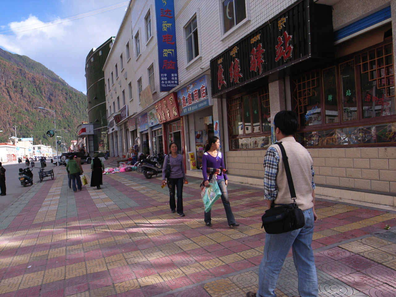 波密县城扎木镇街头 / Street of Zhamu Town, Bomi County, Nyingchi Prefecture, Tibet